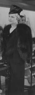 Alicia Aymont-actriz